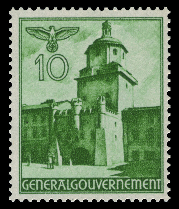 Buildings Ausgabepreis: 10 Groschen First Day of Issue / Erstausgabetag: 5. August 1940 Michel-Katalog-Nr: 42 (Generalgouvernement)